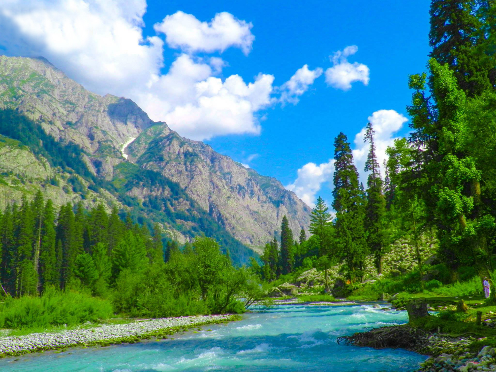 Kumrat Valley Dir upper KPK Hidden nature of Dir Upper